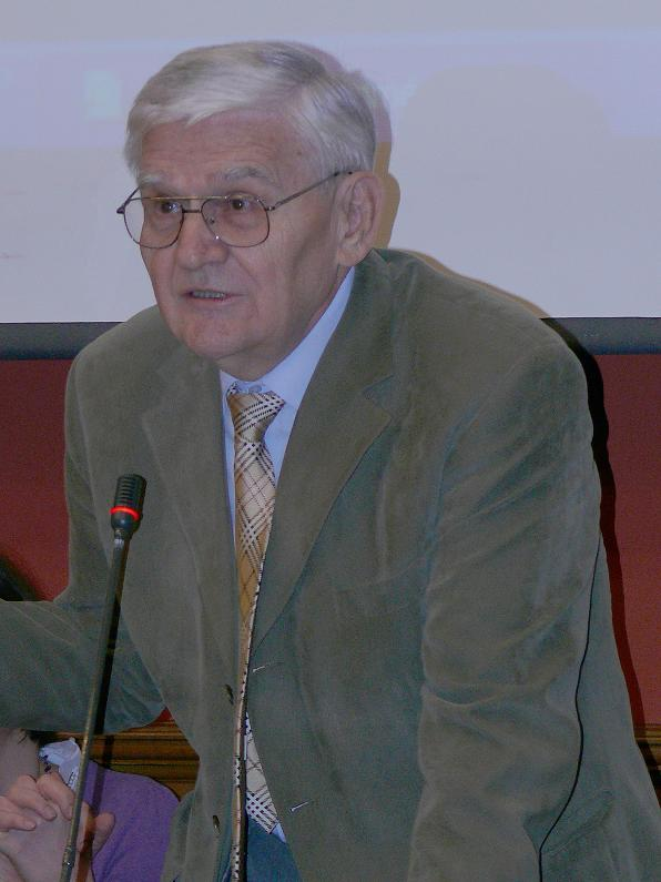 Hungarian academician, ethnographer Attila Paládi-Kovács (at the conference held for the memory of Béla Vikár)